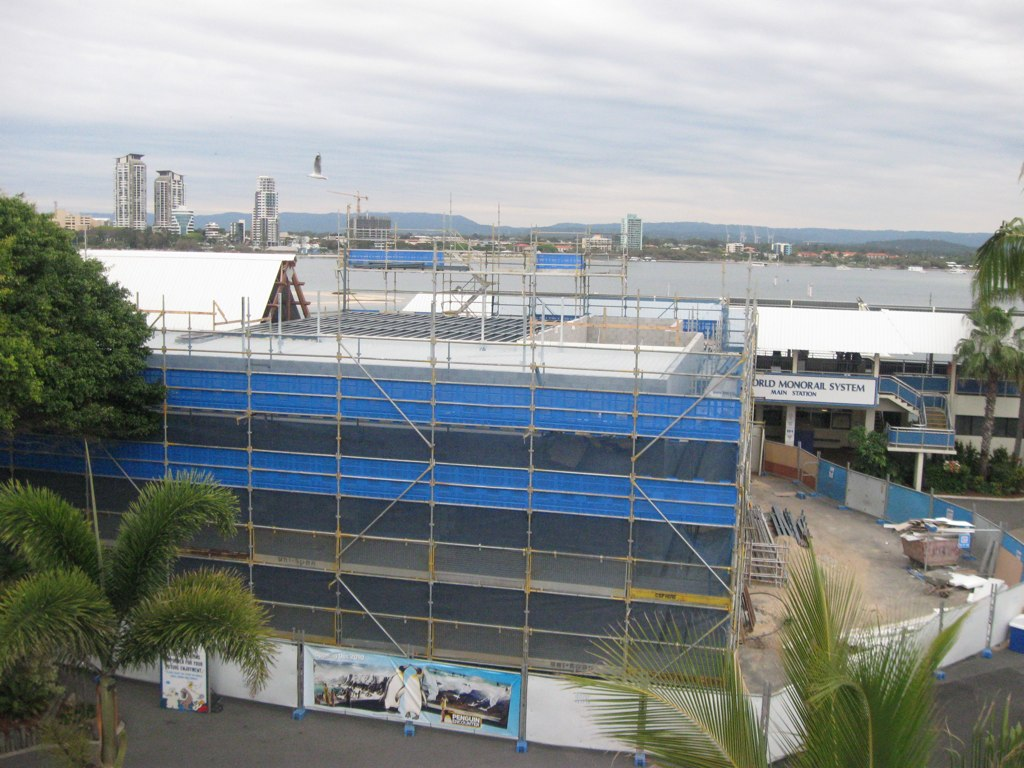 Penguin Encounter under construction at Sea World on 19 September 2010.